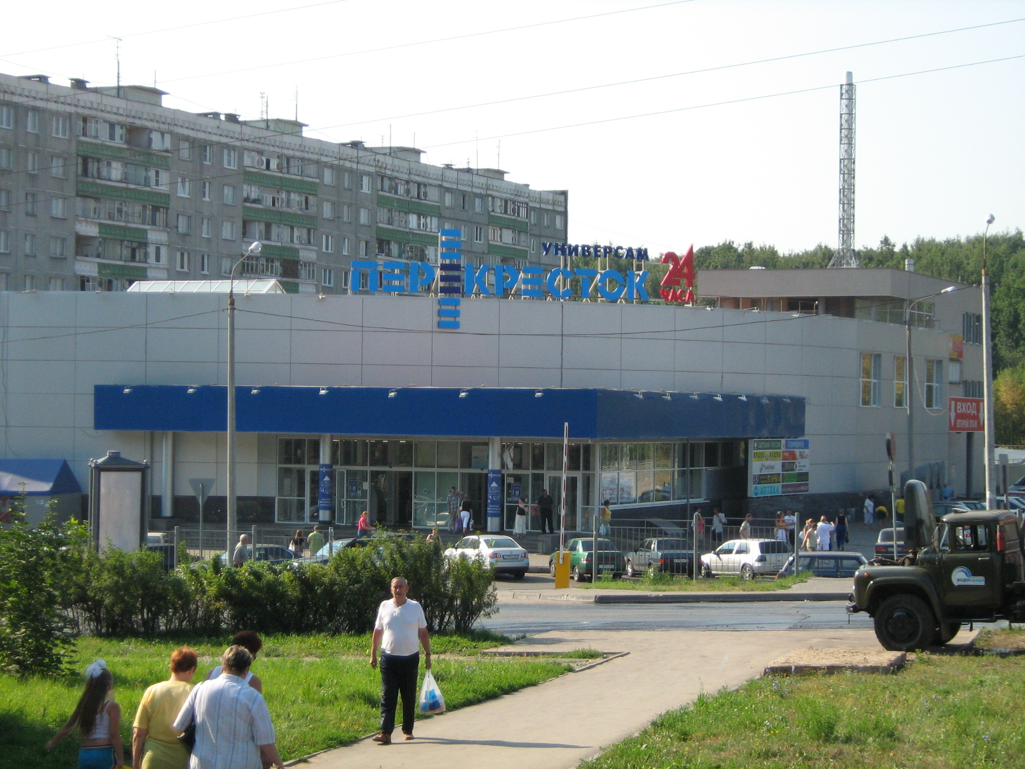 A Perekrestok supermarket near Gagarin Ave in Scherbinki, Nizhny Novgorod.